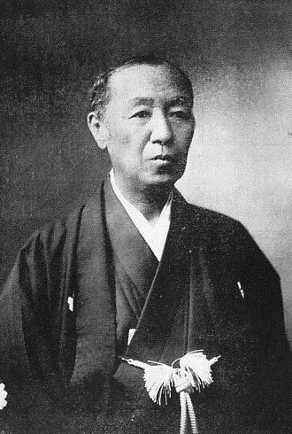 Masakata Sengoku